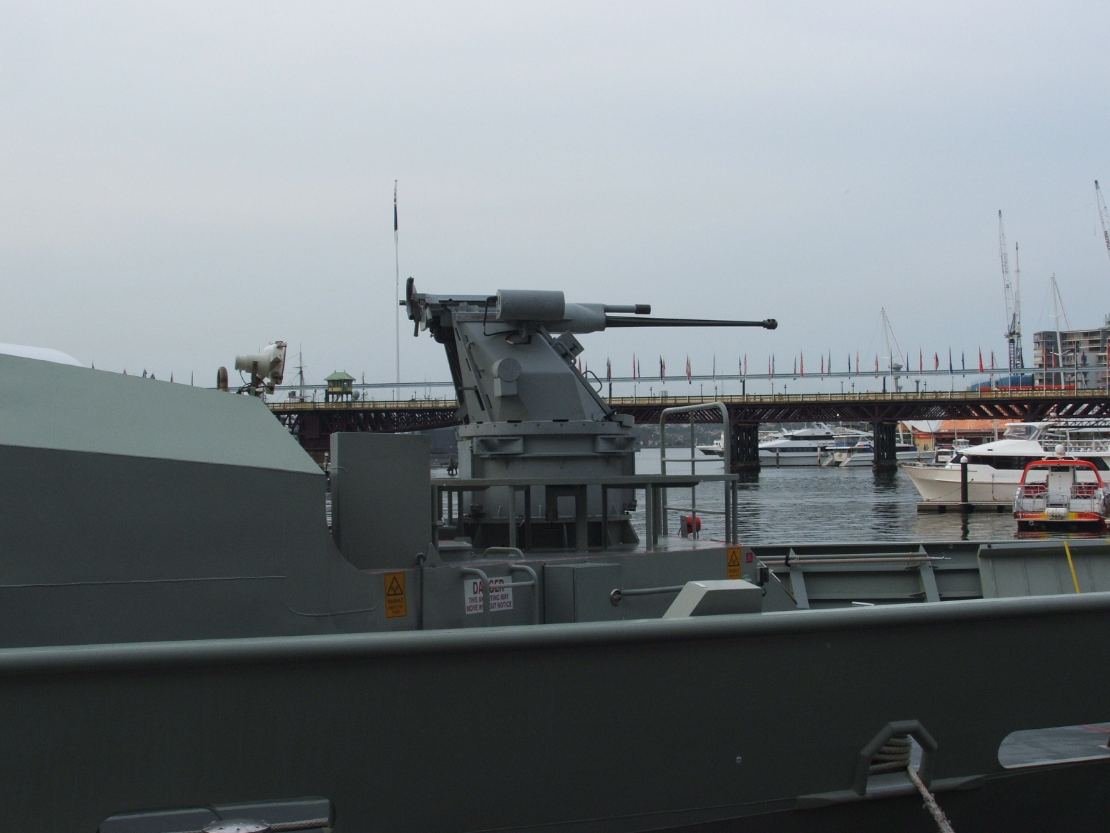 A Rafael Typhoon stabilised 25-millimetre gun mount fitted with an M242 Bushmaster cannon: the main armament of the Armidale class patrol boats. This example is fitted to HMAS Armidale